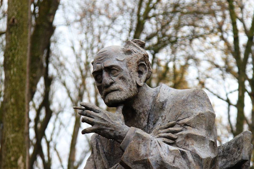 Monument to Armenian actor Sos Sargsyan in Stepanavan